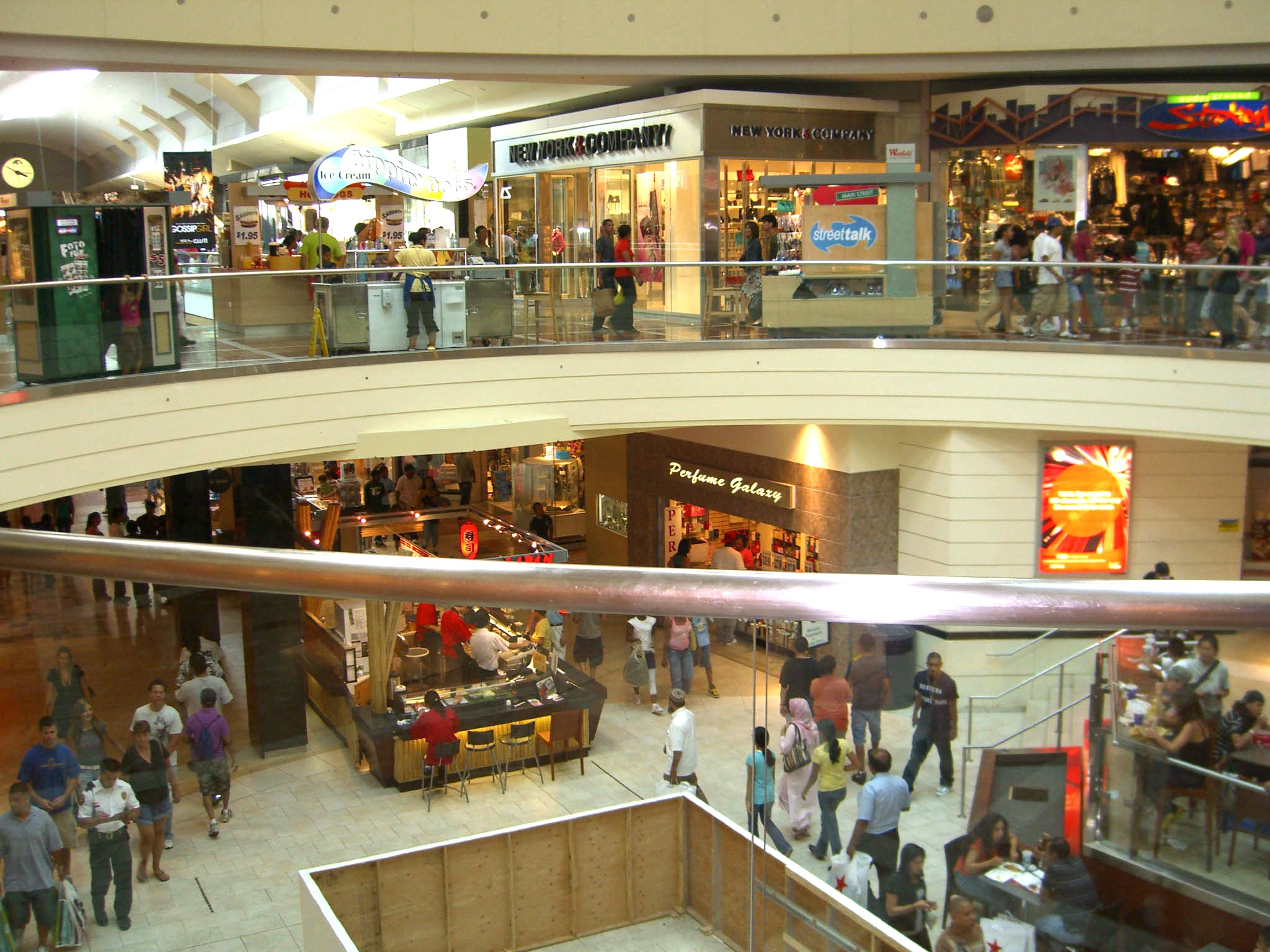 The Garden State Plaza Mall, taken on September 3, 2007 by User:Nightscream.